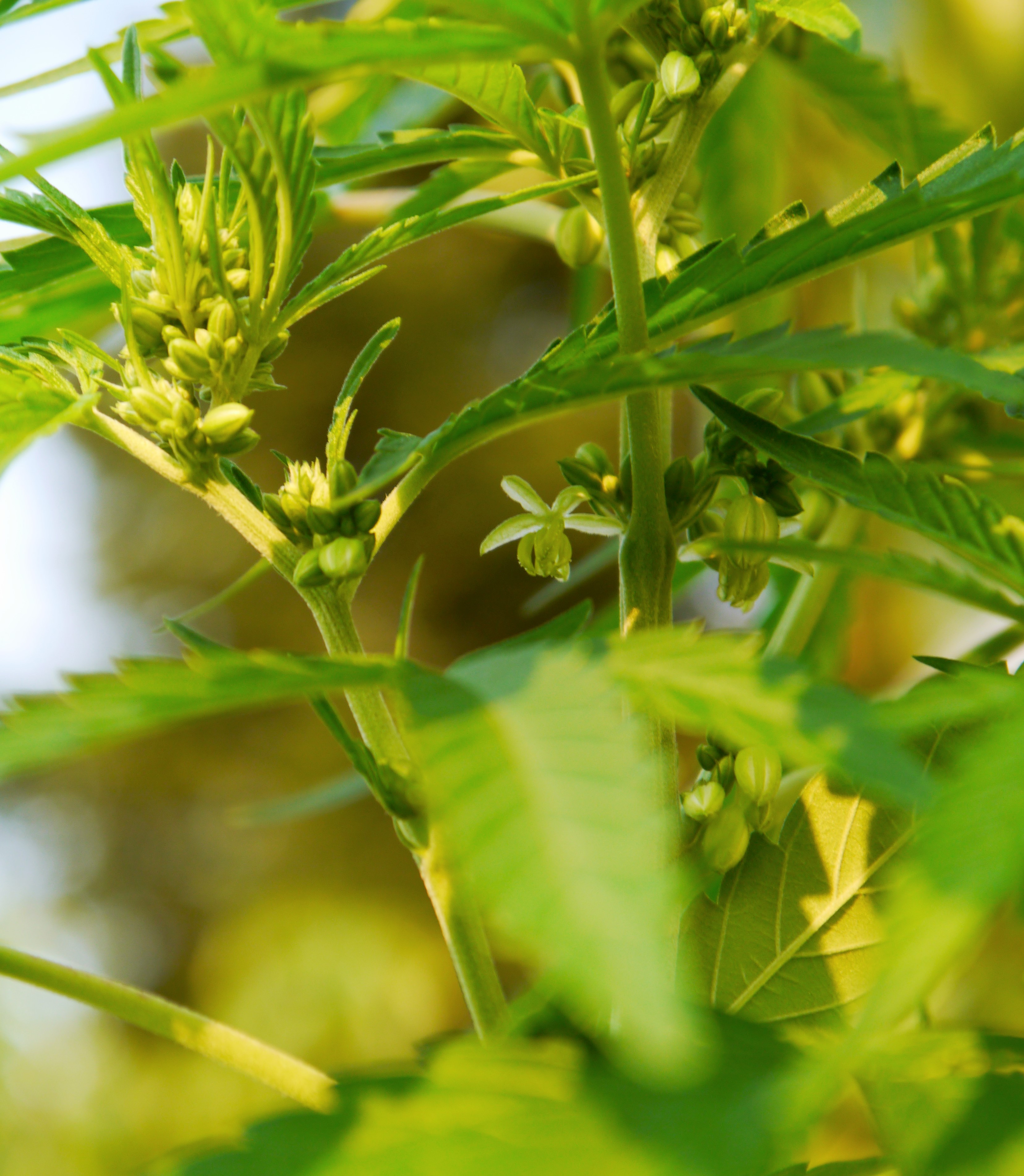 Cannabis sativa male- recreational/medicinal marijuana, not hemp